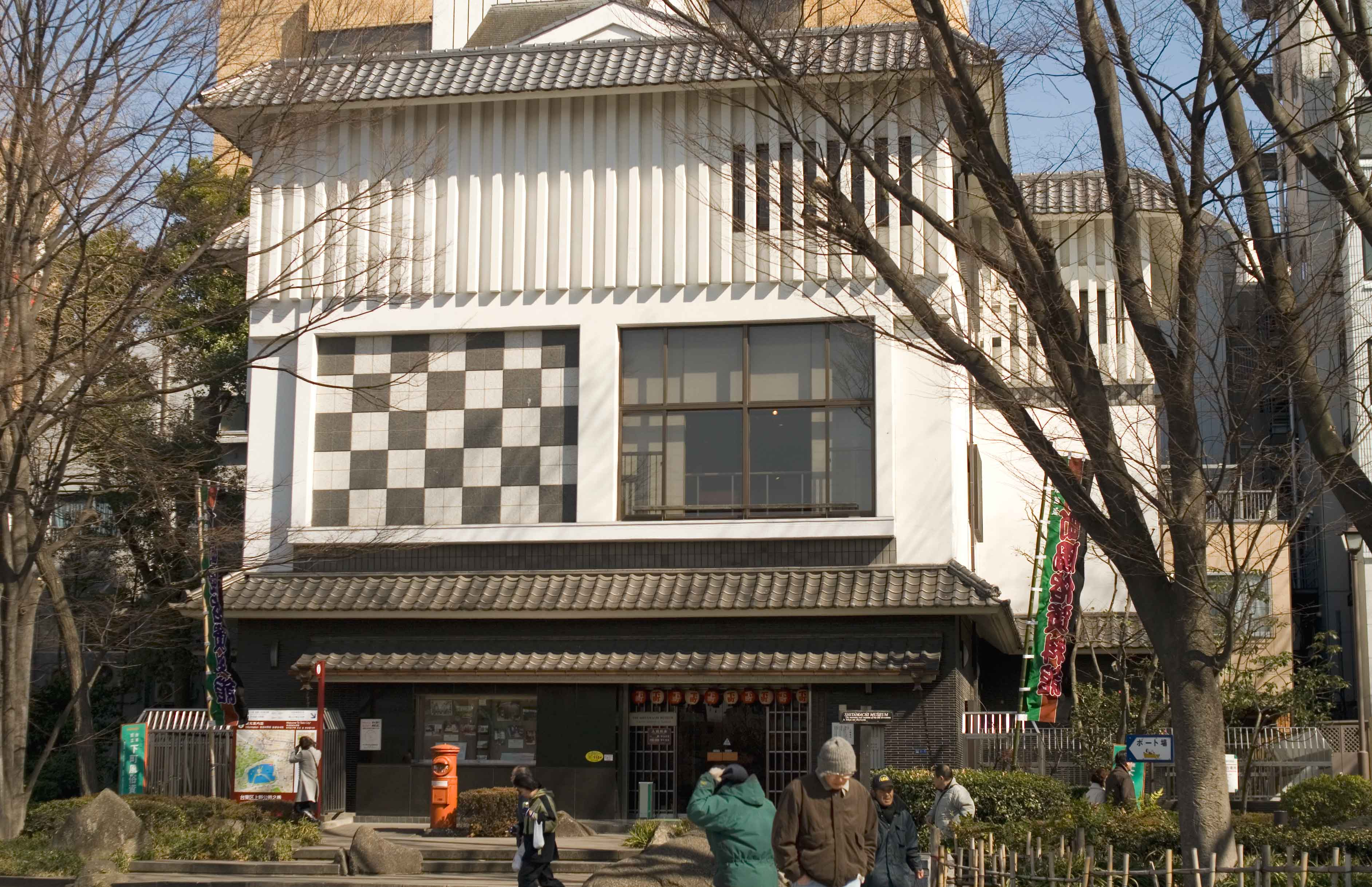 The Shitamachi Museum in Ueno, Tokyo, right on Shinobazu Pond